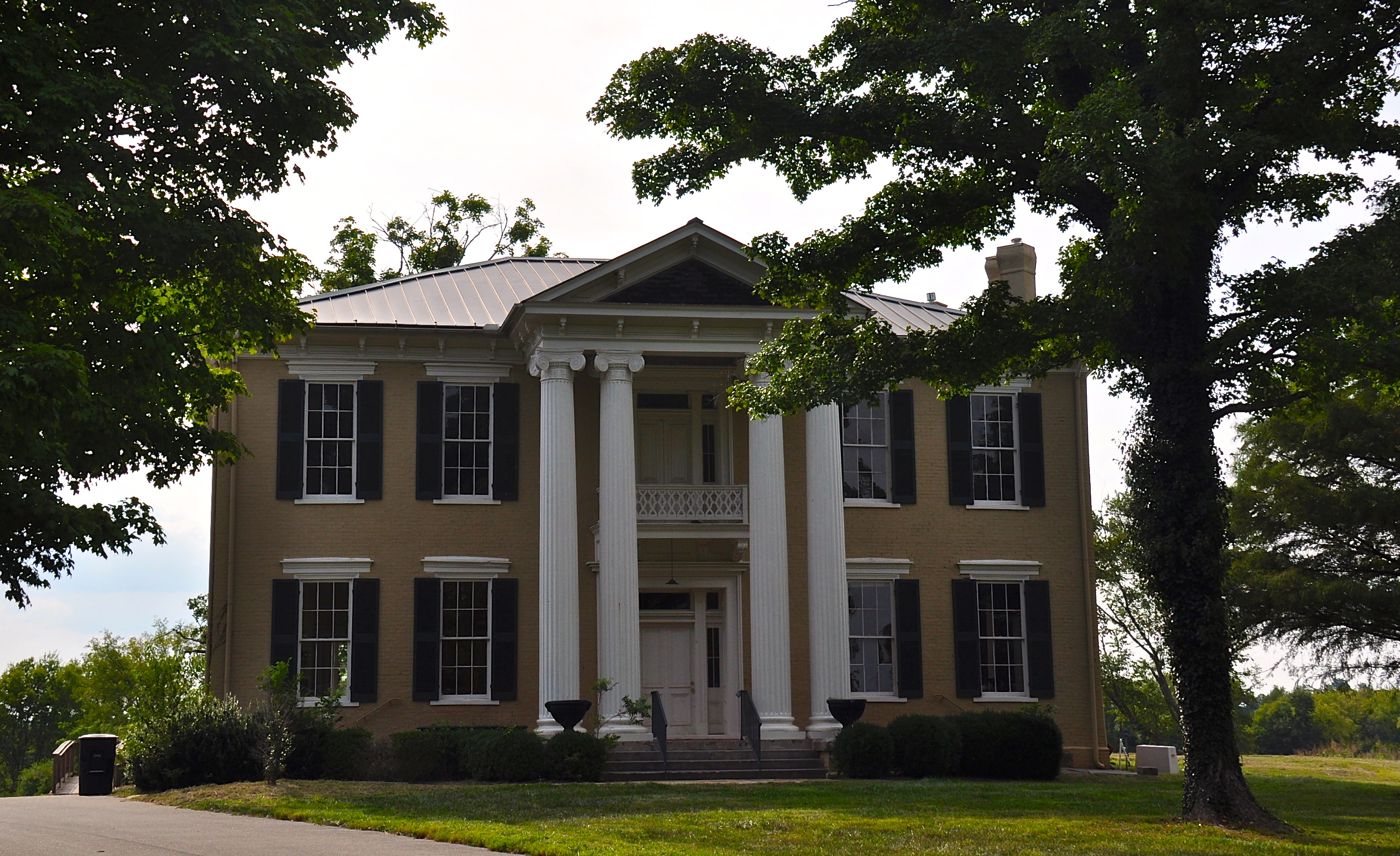 Marymont, Southwest of Murfreesboro, off State Route 99 on Rucker Lane Murfreesboro